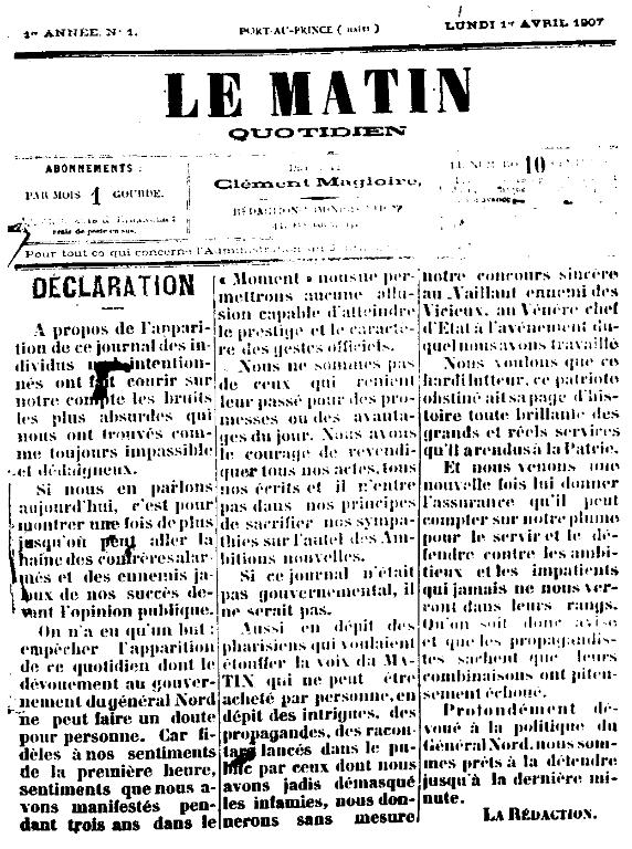 Front page of Le Matin first issue, August 1st 1907